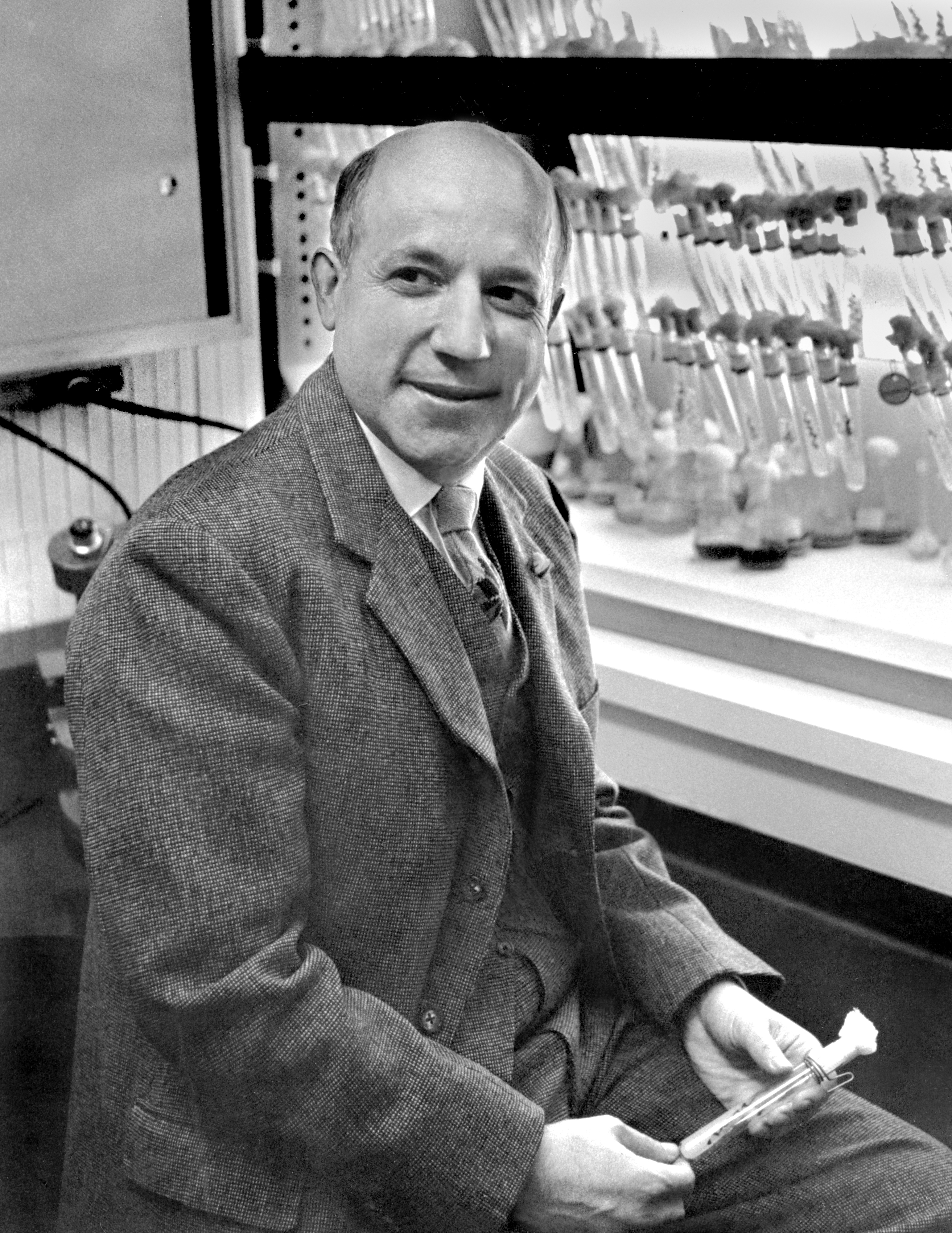 Dr. Melvin Calvin, Nobel Laureate, professor of physics, and Director of the Chemical Biodynamics Laboratory at Lawrence Berkeley Laboratory, works in his photosynthesis laboratory. Dr. Calvin was awarded the Nobel Prize in 1961 for elucidating the chemistry of the photosynthetic process.